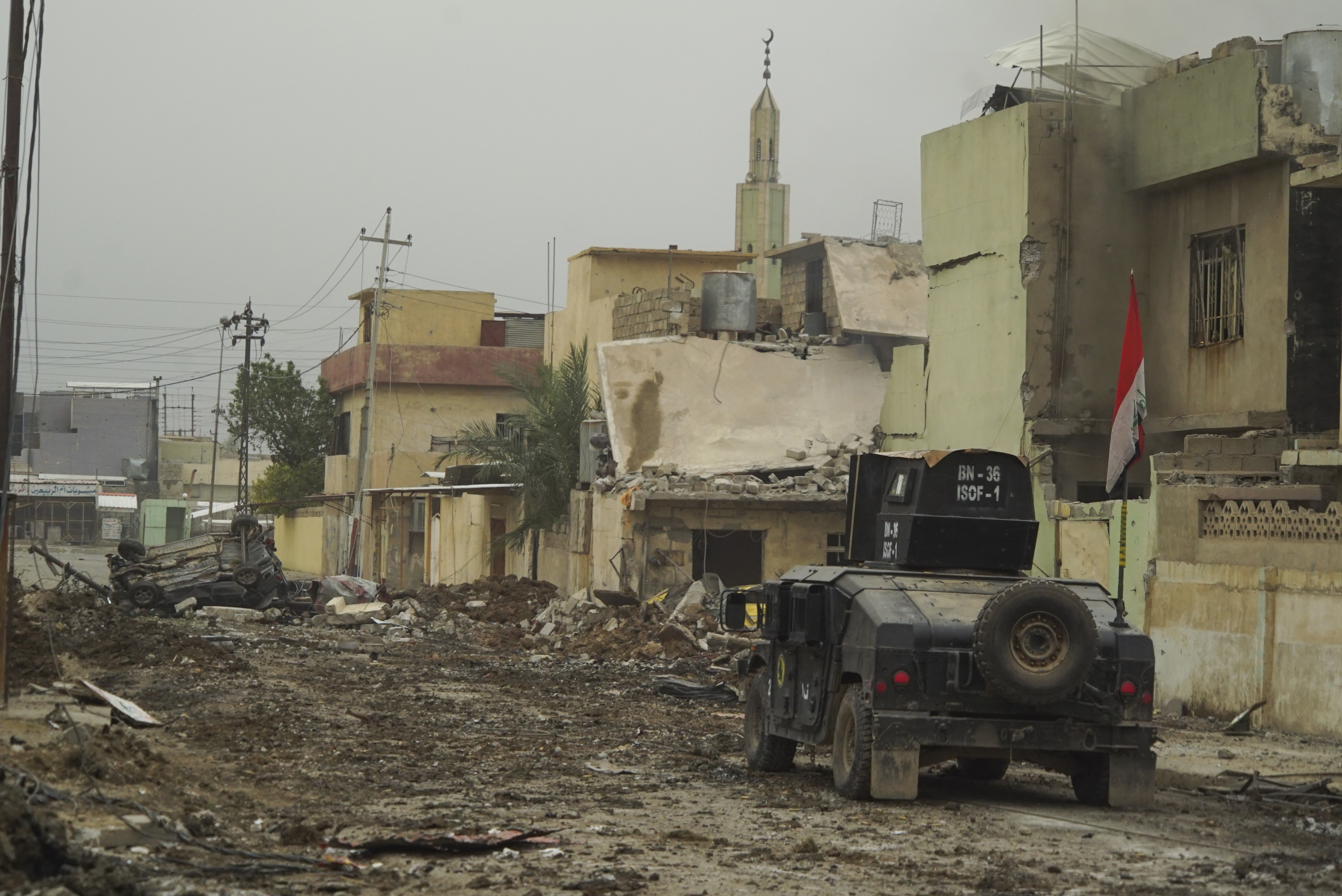 ISOF APC on the street of Mosul, Northern Iraq, Western Asia. 16 November, 2016.